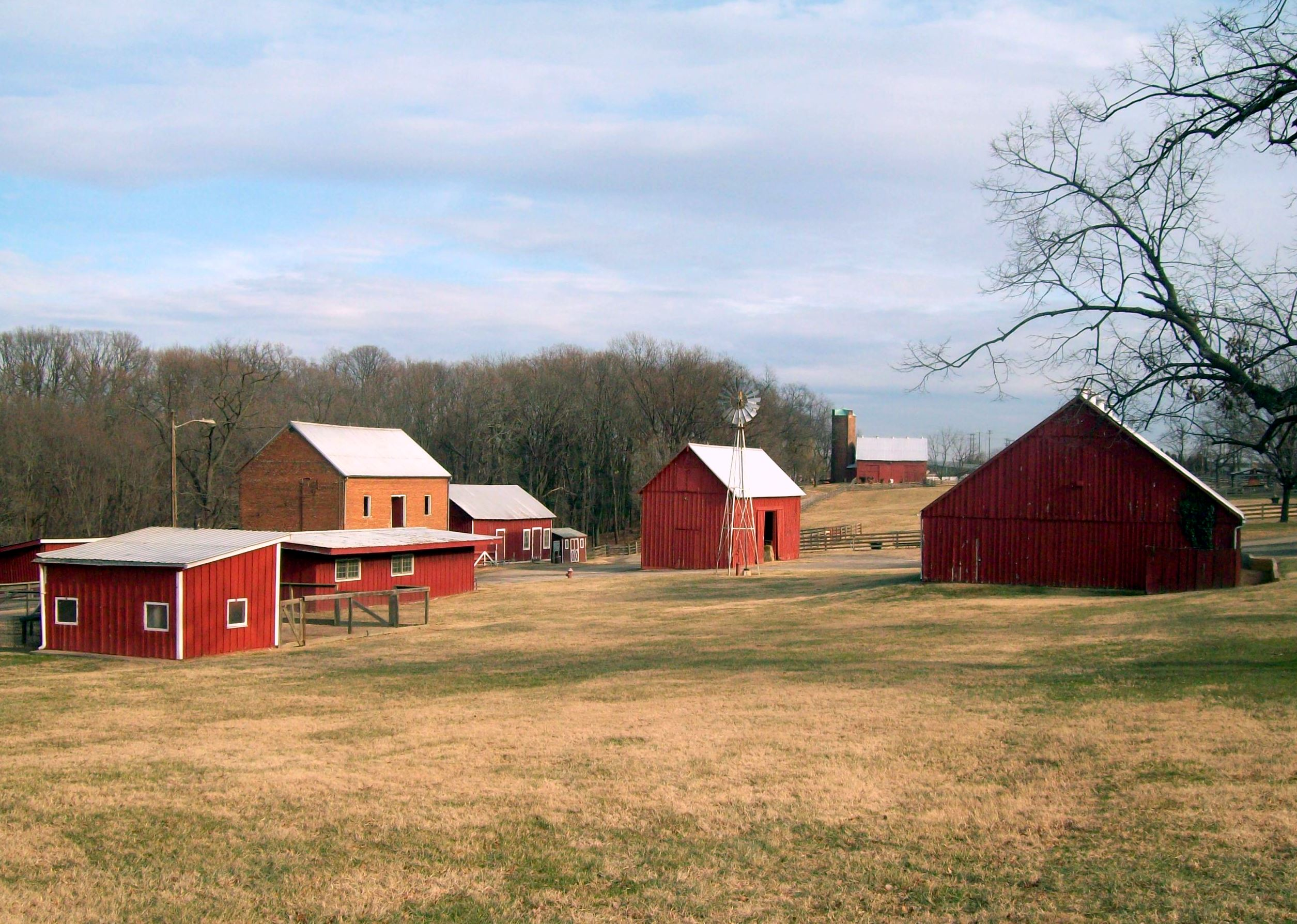 Oxon Hill Farm General View, Oxon Hill Manor, December 2010